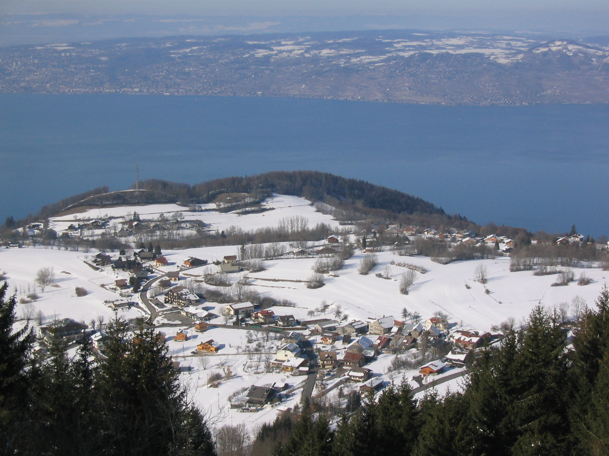 Thollon-les-Mémises (Haute-Savoie, France)